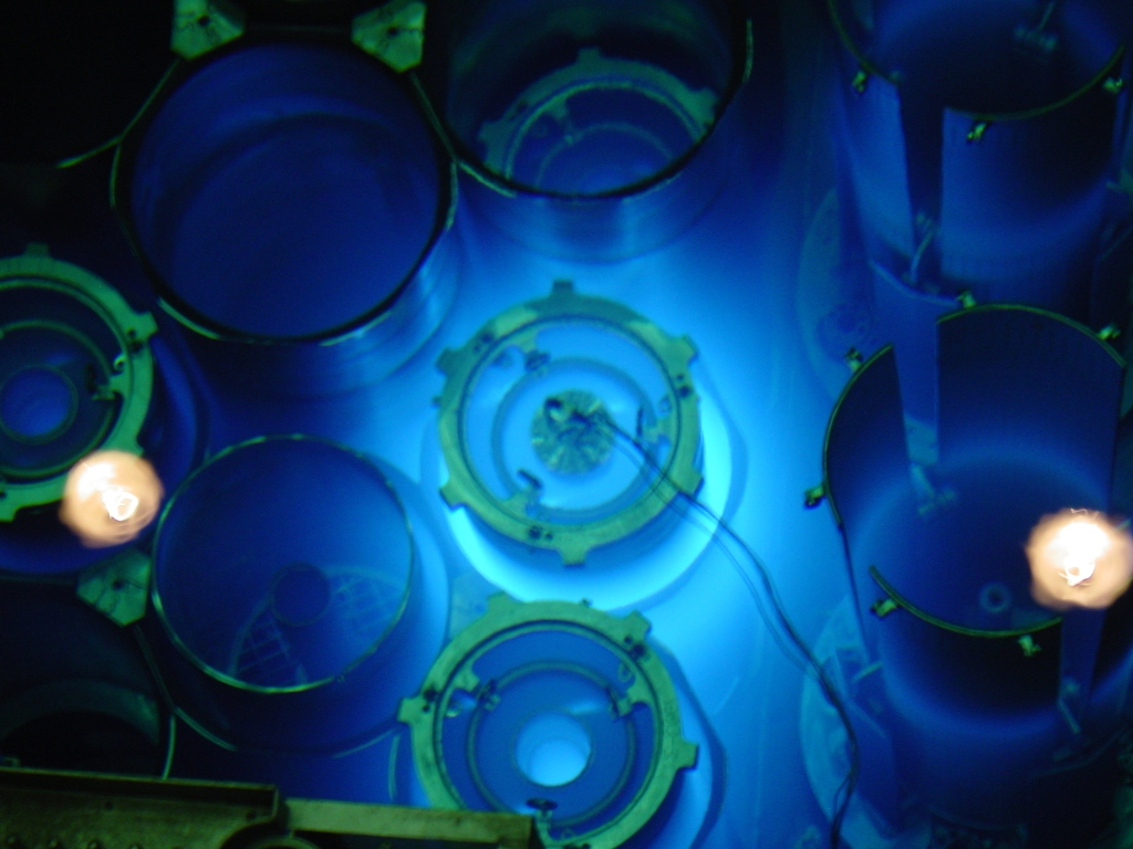 High Flux Isotope Reactor Gamma Blue Glow